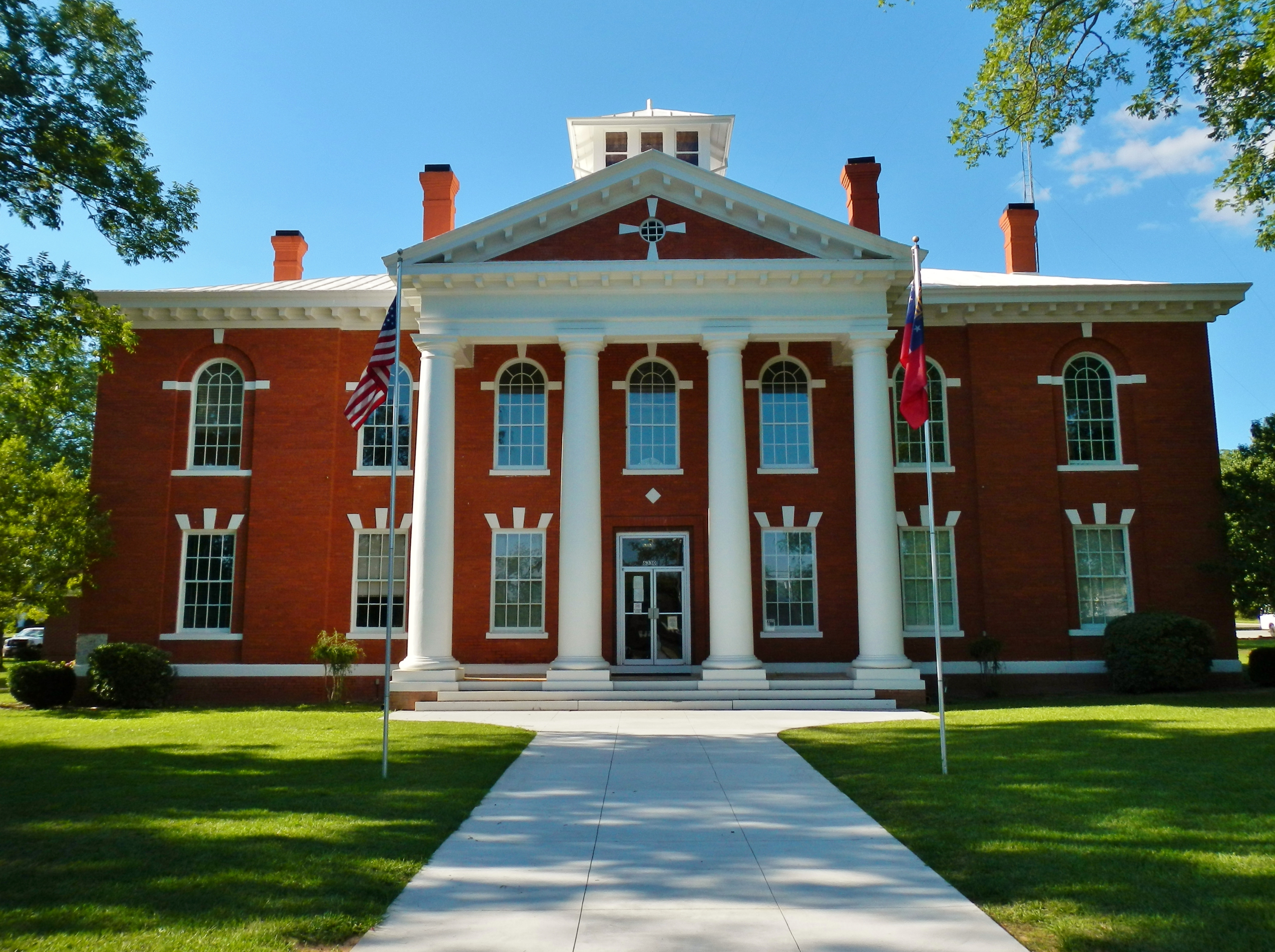 This is a photo of the Webster County Courthouse in Preston, GA.